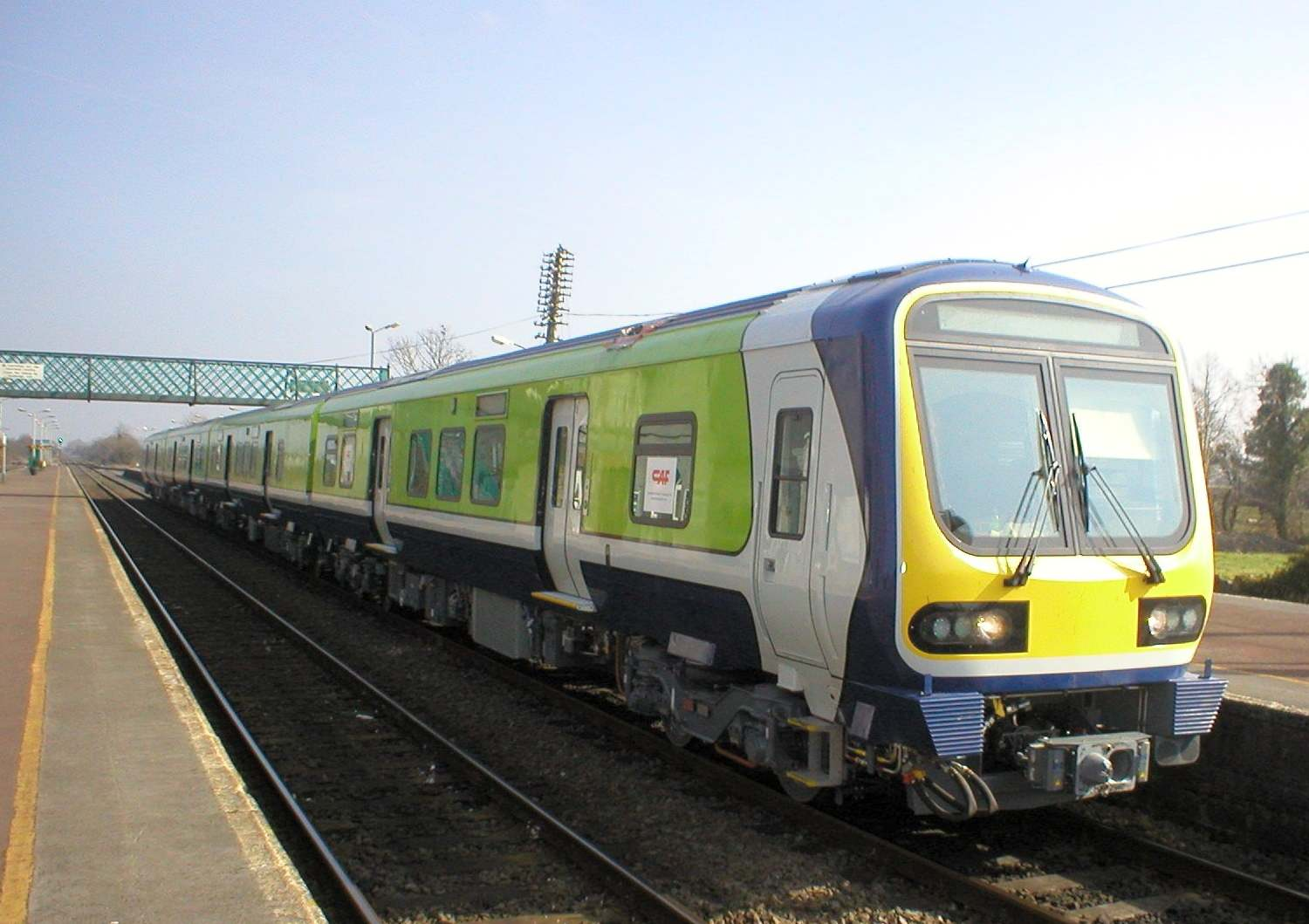 Iarnrod Eireann Class 2900